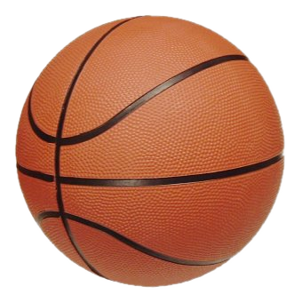 A typical "M1-LF league" basketball with a rubber-type outer surface.